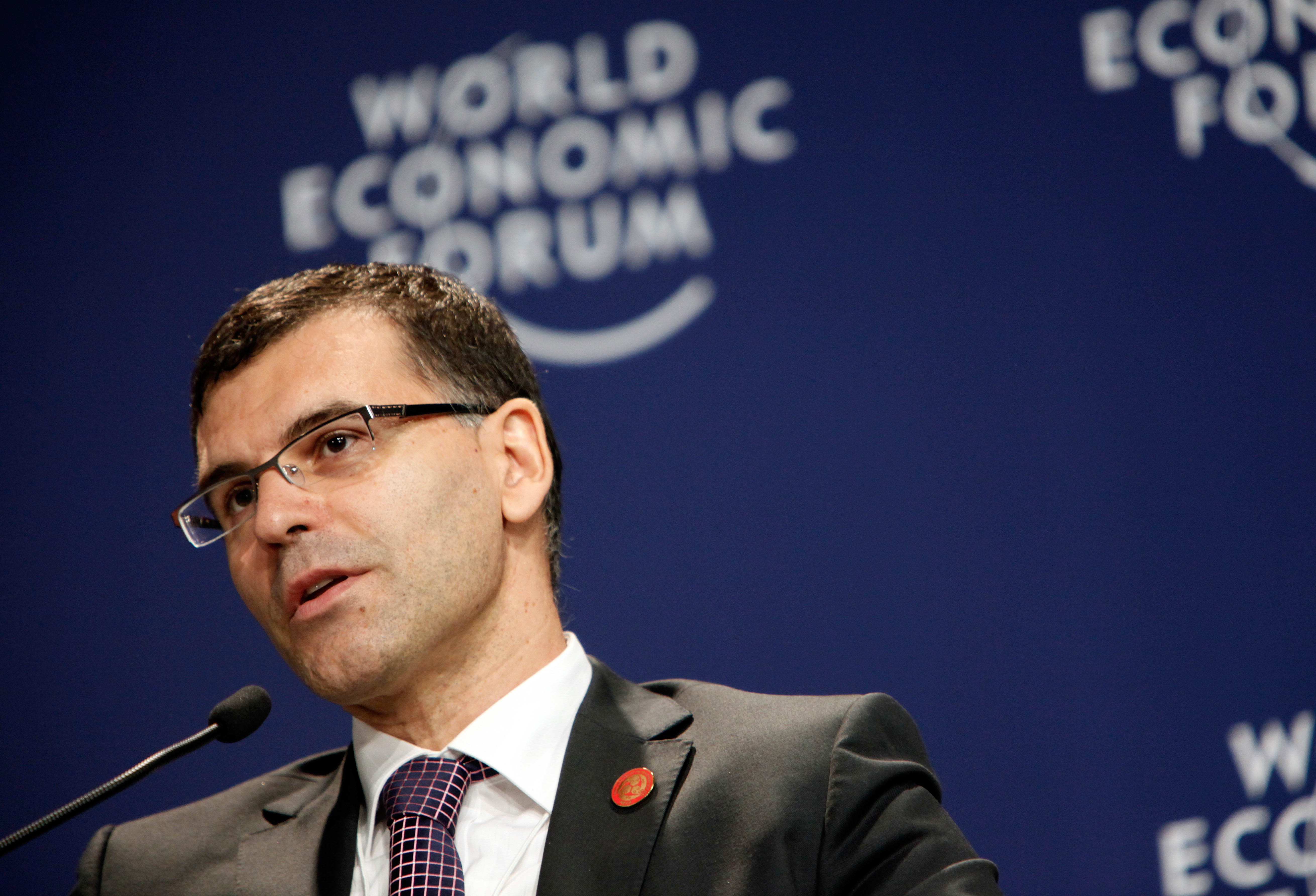 TIANJIN/CHINA 13SEP10 - Simeon Djankov, Deputy Prime Minister and Minister of Finance of Bulgaria, speaks during the "Doing Business at the Next Frontier" session at the Annual Meeting of the New Champions in Tianjin, China, September 13, 2010. Copyright World Economic Forum ( Shen